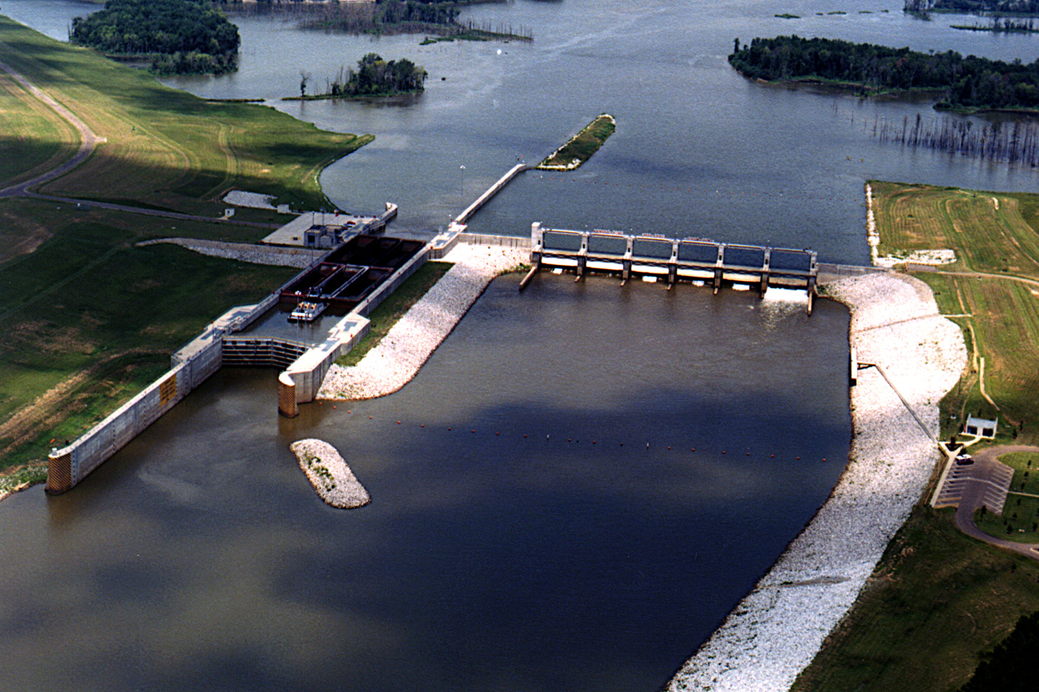 Aerial view of Aberdeen Lock and Dam on the Tombigbee River near Aberdeen, Monroe County, Mississippi, USA. The dam impounds Aberdeen Lake and is part of the Tennessee-Tombigbee Waterway, connecting the Tennessee and Tombigbee Rivers. The U.S. Army Corps of Engineers maintains the lock and the waterway for barge navigation. View is upriver to the northwest. Coordinates: 33°49′49.98″N 88°31′10.61″W / 33.83055°N 88.5196139°W